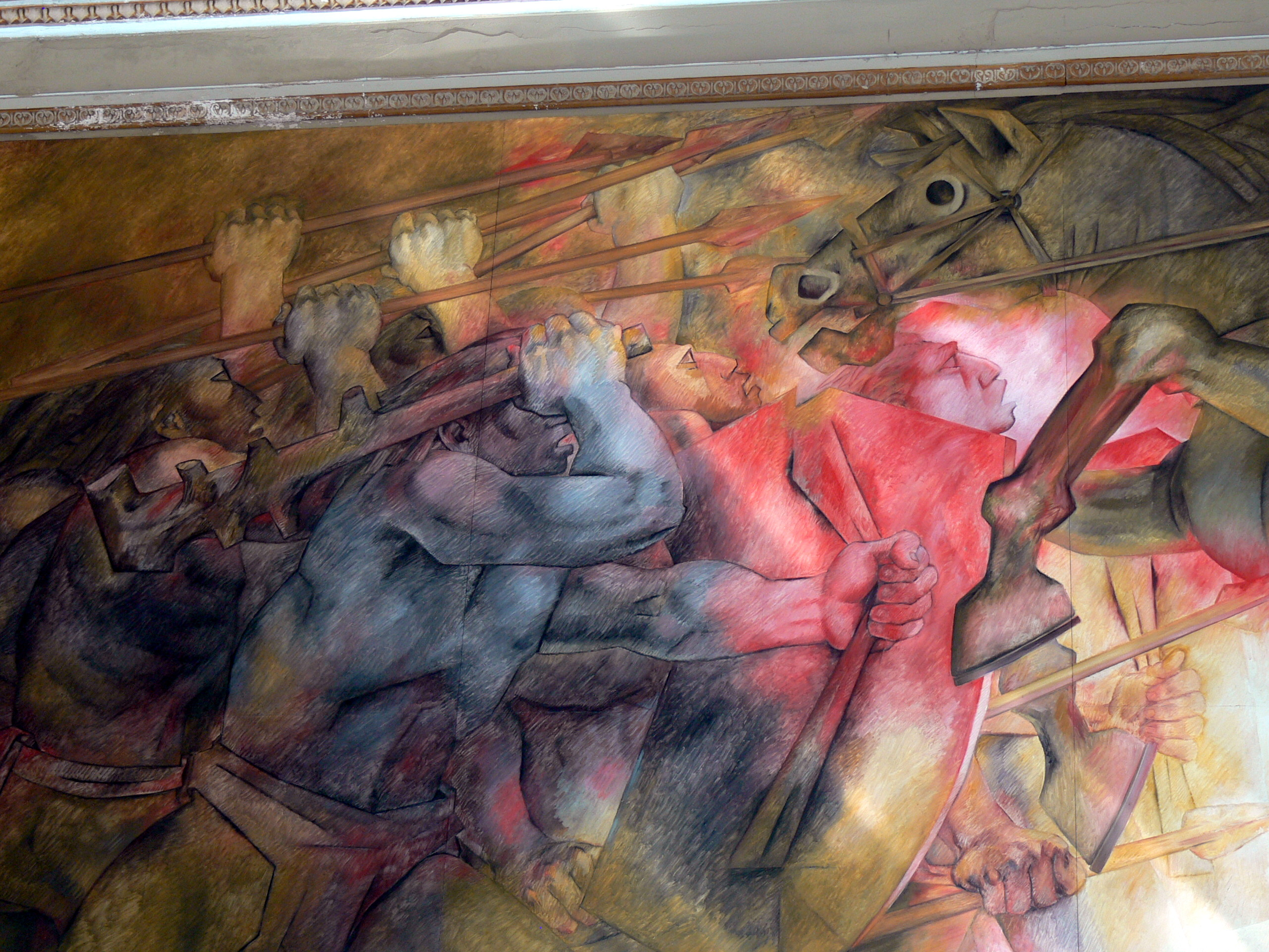 Mérida - Palacio de Gobierno - Murals by Fernando Castro Pacheco: Mayan warrior fighting against Spanish conquistadors ( detail )